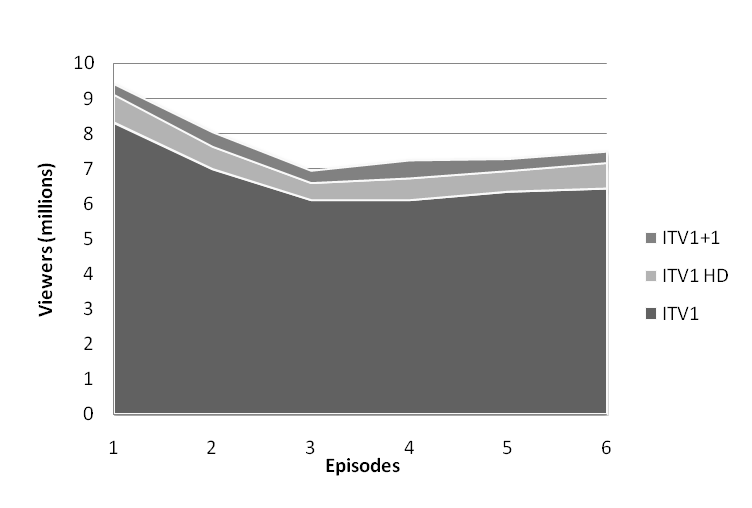 A graph showing the breakdown in viewership for the television programme Scott & Bailey in the United Kingdom. The graph depicts the channels used by viewers: ITV1, ITV1 HD, and ITV1+1